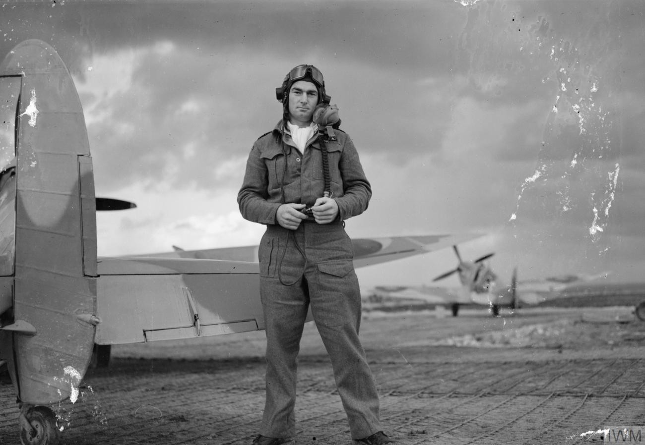 Royal Air Force- Italy, the Balkans and South-east Europe, 1942-1945. Squadron Leader E D "Rosie" Mackie, Commanding Officer of No. 92 Squadron RAF, photographed at Canne, Italy, when his score of victories stood at 15 confirmed enemy aircraft destroyed. Mackie joined the RNZAF in 1941 and arrived in the United Kingdom in 1942 where, after a period at an Operational Training Unit he was posted to No, 485 Squadron RNZAF. Early in 1943 he joined No. 243 Squadron RAF in North Africa, and achieved considerable success, becoming a flight commander in May and commanding the squadron itself in June. In November 1943, after further victories over Sicily and Italy he was given the command of 92 Squadron RAF. Mackie's long tour of operations ended on 20 February 1944, after which he returned to the United Kingdom and converted to flying the Hawker Tempest. In December 1944 he joined No. 274 Squadron RAF in Holland, but was made Commanding Officer of No. 80 Squadron RAF the following month, and then promoted Wing Leader of No. 122 Wing RAF in April 1945, before returning to New Zealand the following September.